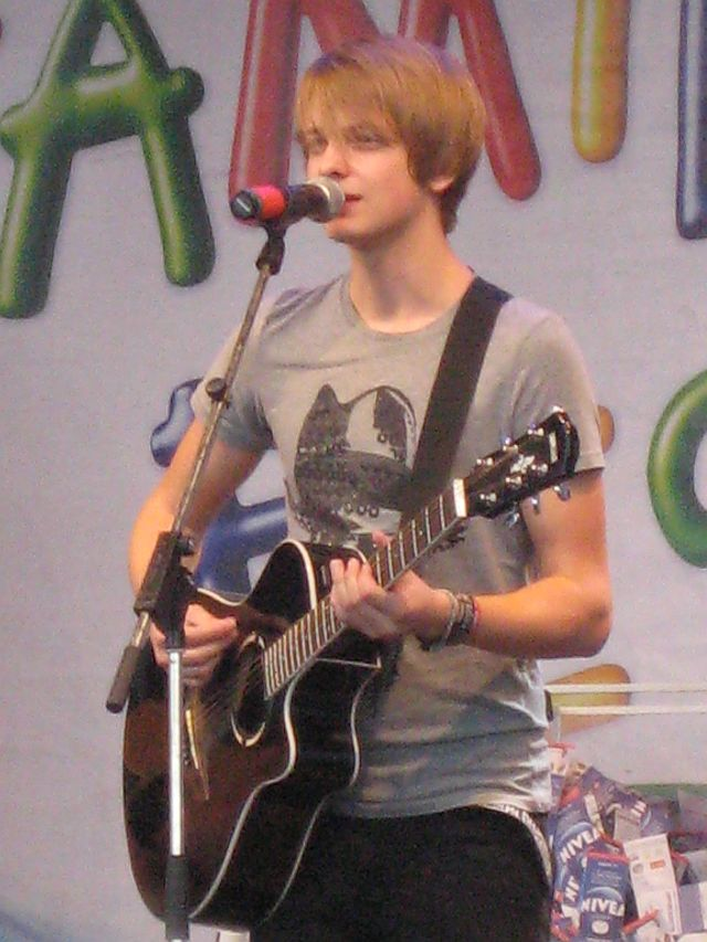 Oliver Wimmer, an Austrian pop musician. Playing in Vienna at the "Familienfest" (Donaupark, 6. September 2009)